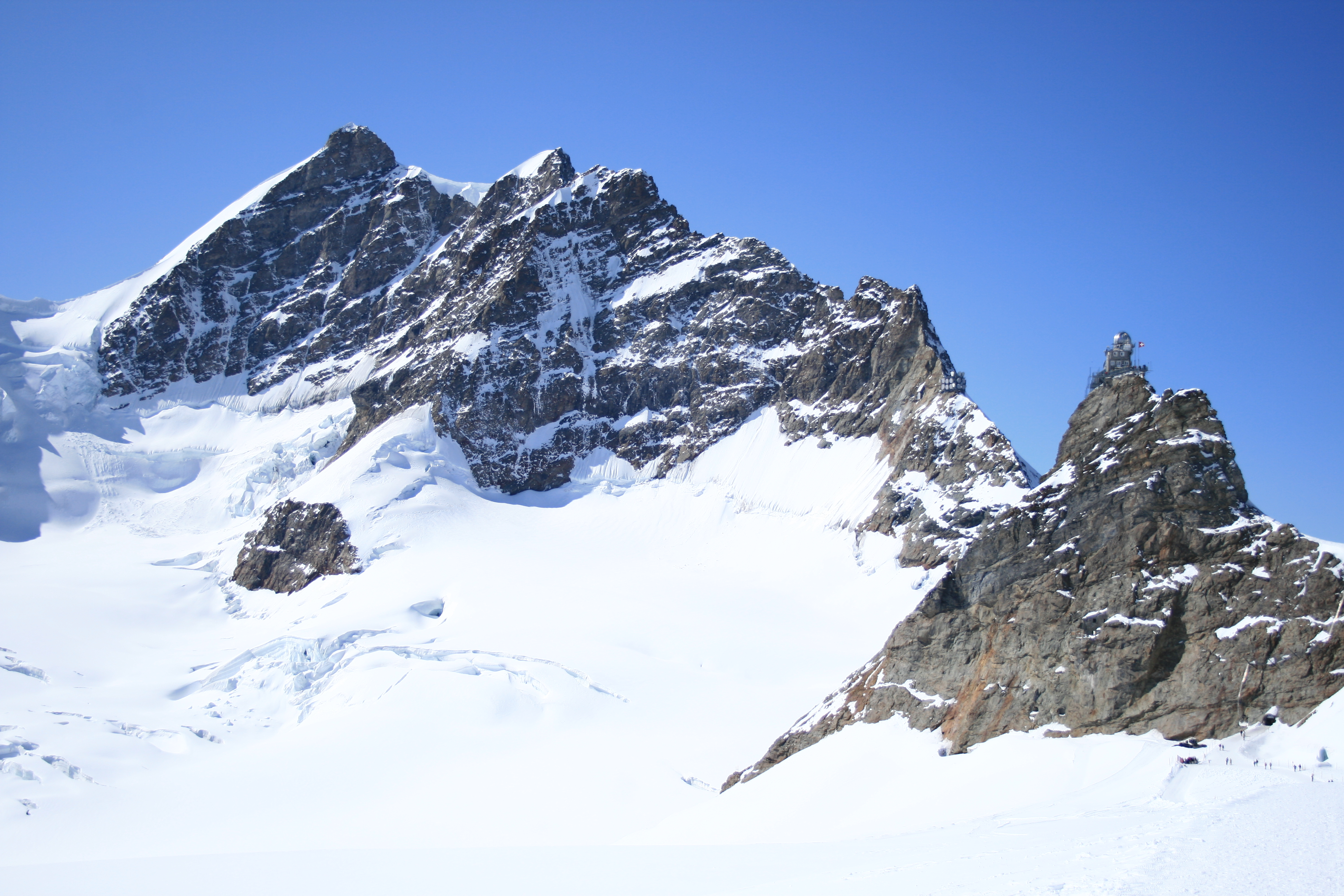 jungfrau & sphinx (the swiss alps)